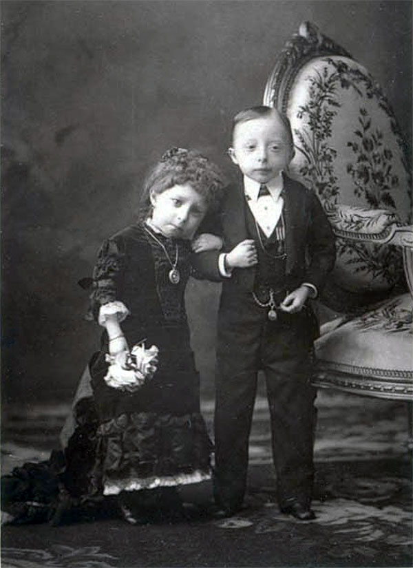 Emily (Millie) Edwards and her husband and exhibition partner, Francis (General Mite) Flynn